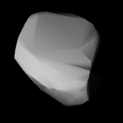 3D convex shape model of 2590 Mourão, computed using light curve inversion techniques. J. Hanuš, J. Ďurech, M. Brož, B. D. Warner (June 2011). "A study of asteroid pole-latitude distribution based on an extended set of shape models derived by the lightcurve inversion method". Astronomy and Astrophysics 530: A134. ISSN 0004-6361. arXiv